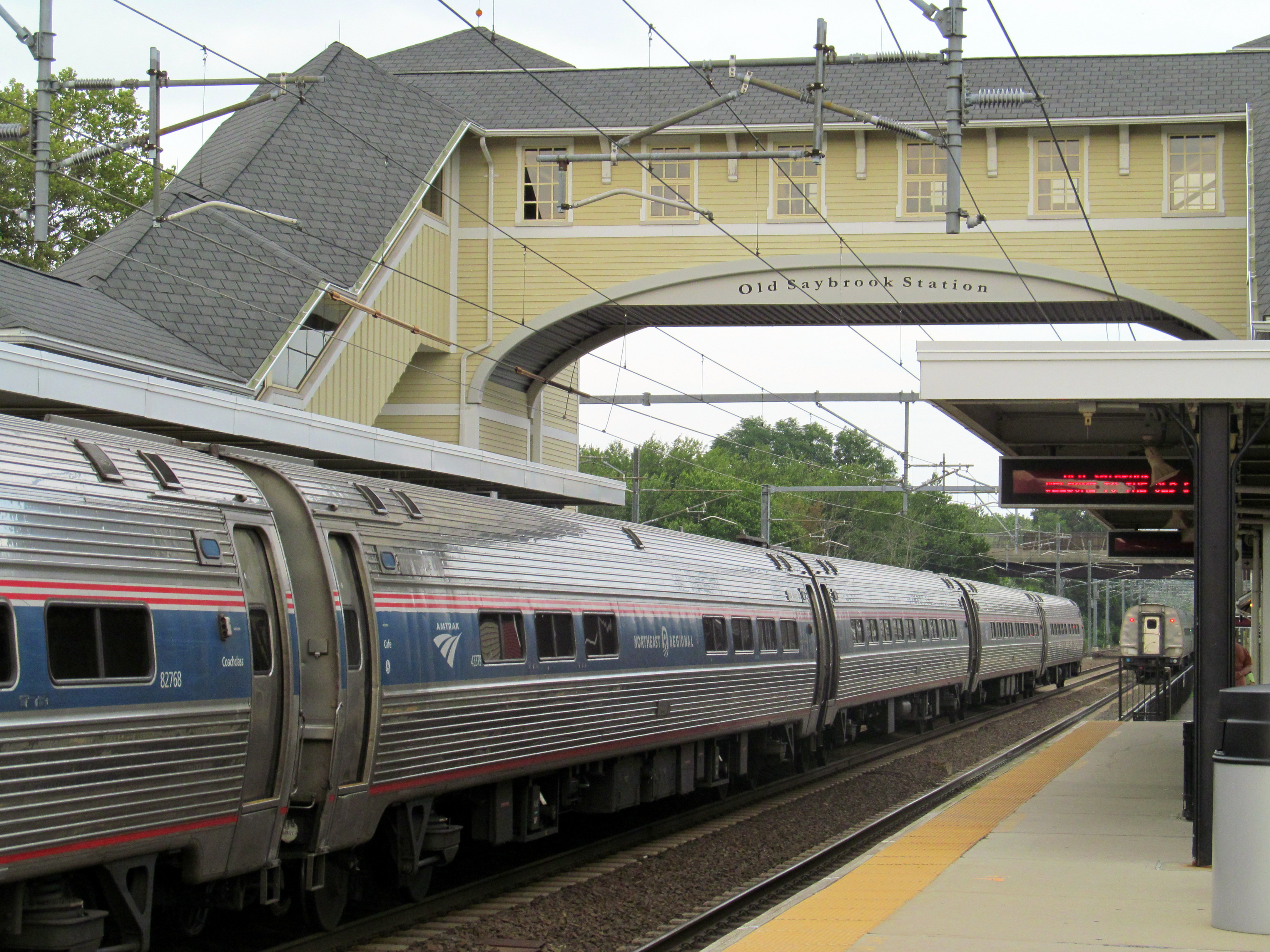 Two Northeast Regional trains pass at Old Saybrook station in August 2012